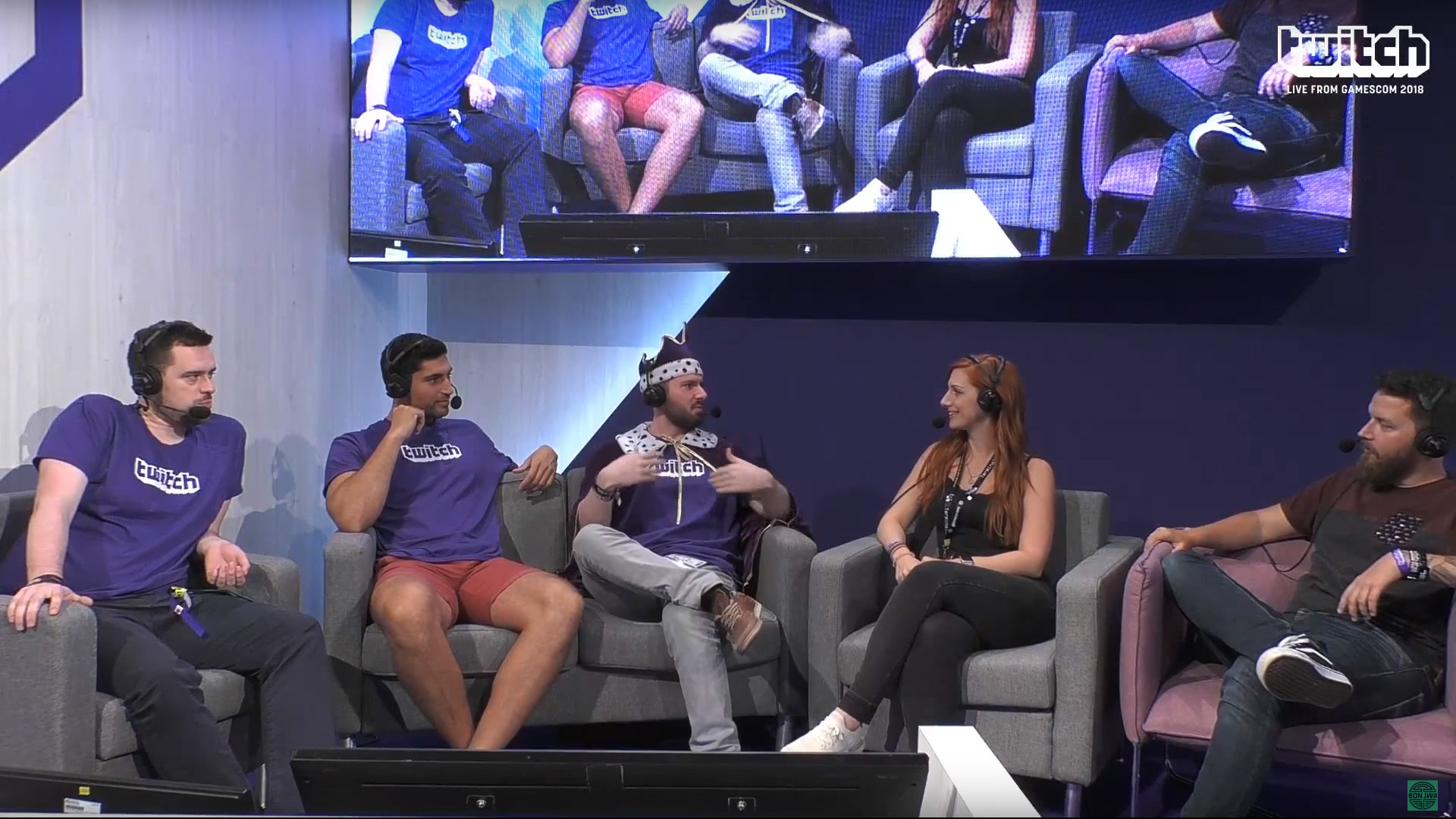 Bonjwa at Gamescom 2018